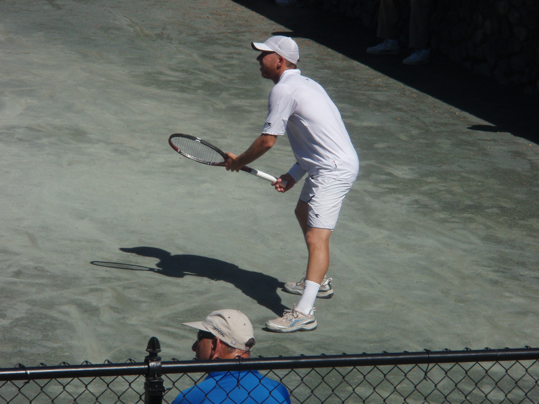 Dudi Sela Playing In New City, New York In Kennedy Funding Invitational